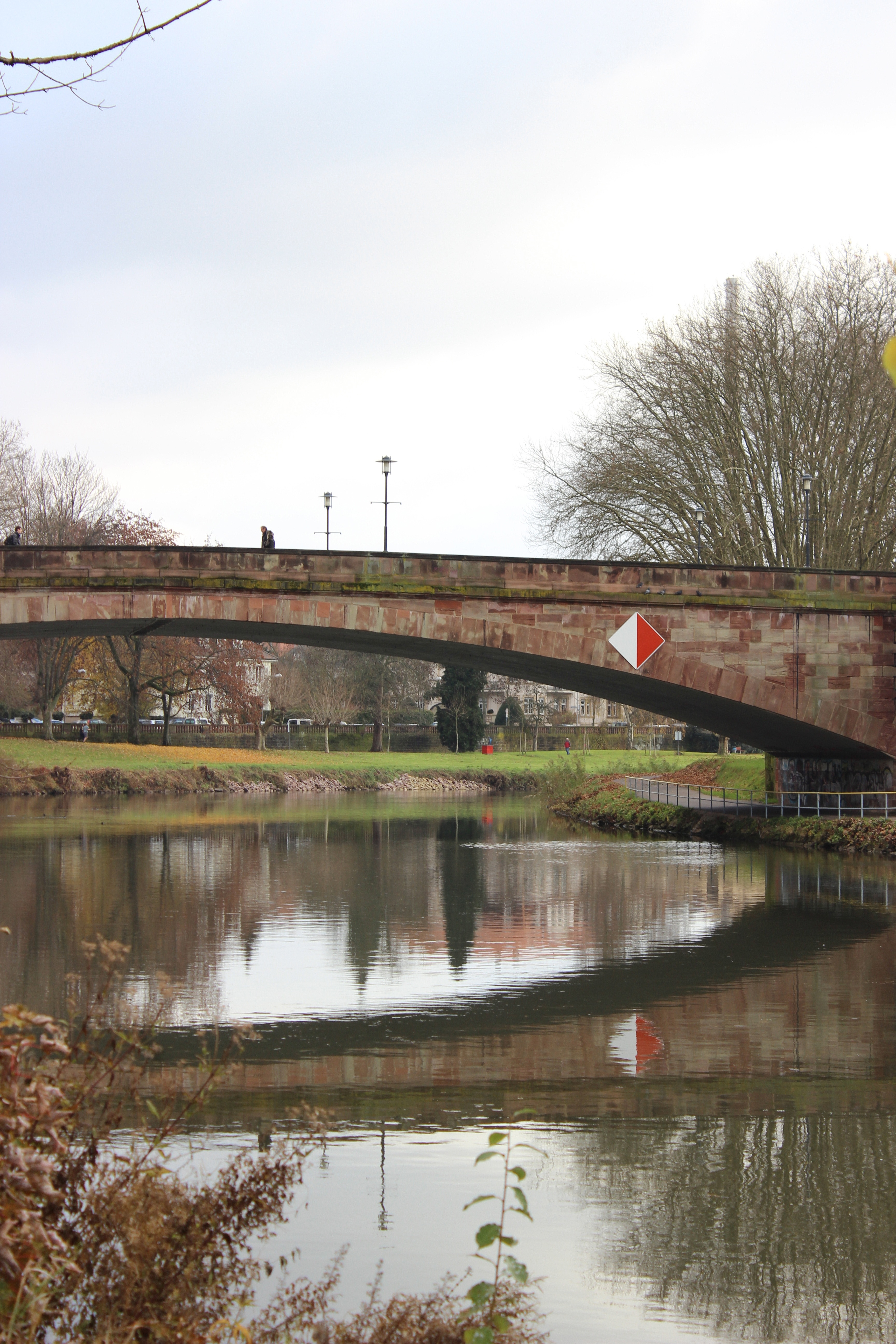 The old bridge over the Saar at Saarbruecken